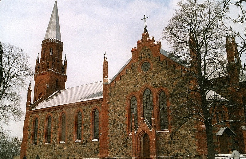 Pauluse (St Paul’s) Church in Viljandi, Estonia, built in 1863-1866. The photo was taken in winter.